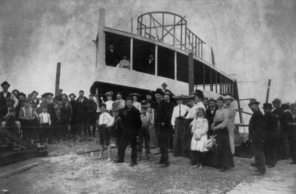 Anderson ship yard on Lake Washington, circa 1900. The vessel under contruction was not identified in the source.